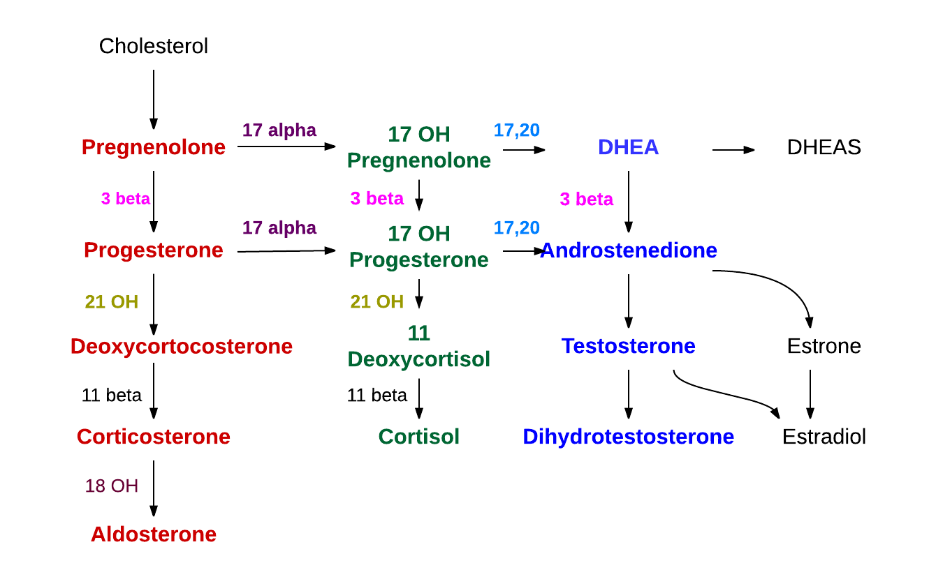 Adrenal steroid hormone synthesis steps created after reviewing normal physiology